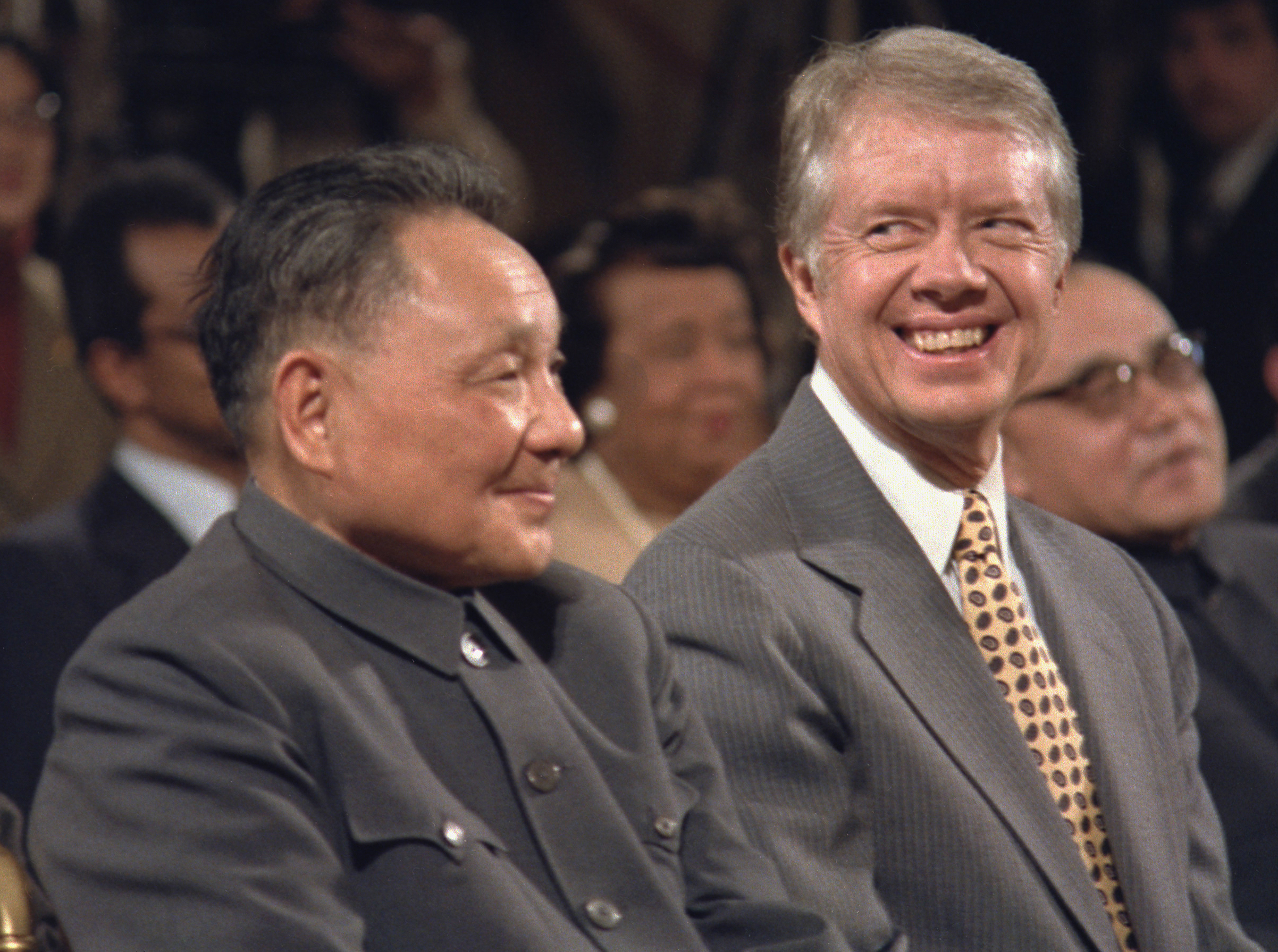 Deng Xiaoping and Jimmy Carter during Sino-American signing ceremony.